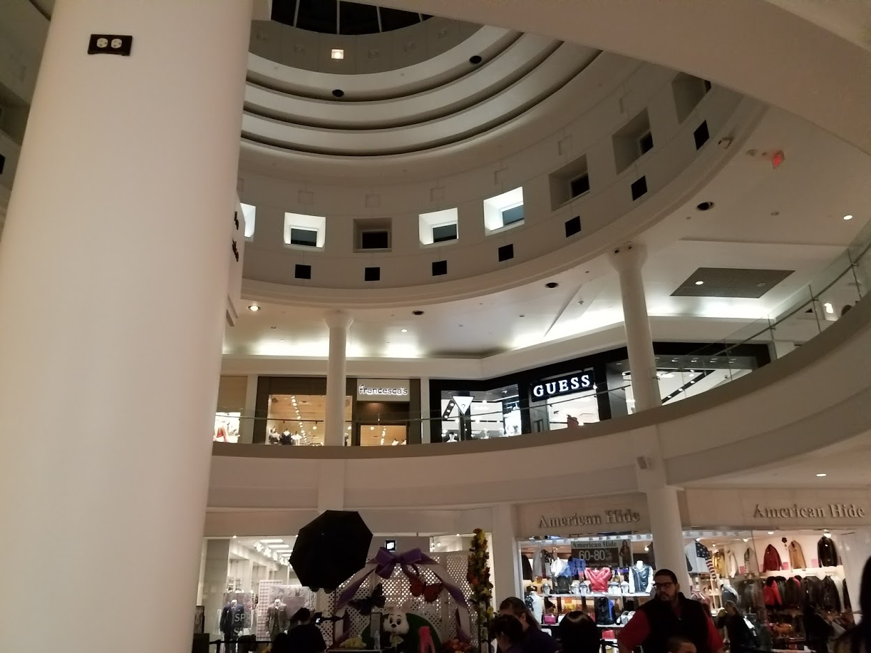 This is the Center Court Of Menlo Park Mall in 2017 On the First Floor.